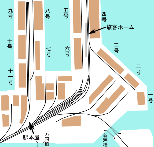 Track layout of Yokohamaminato station, circa. 1959